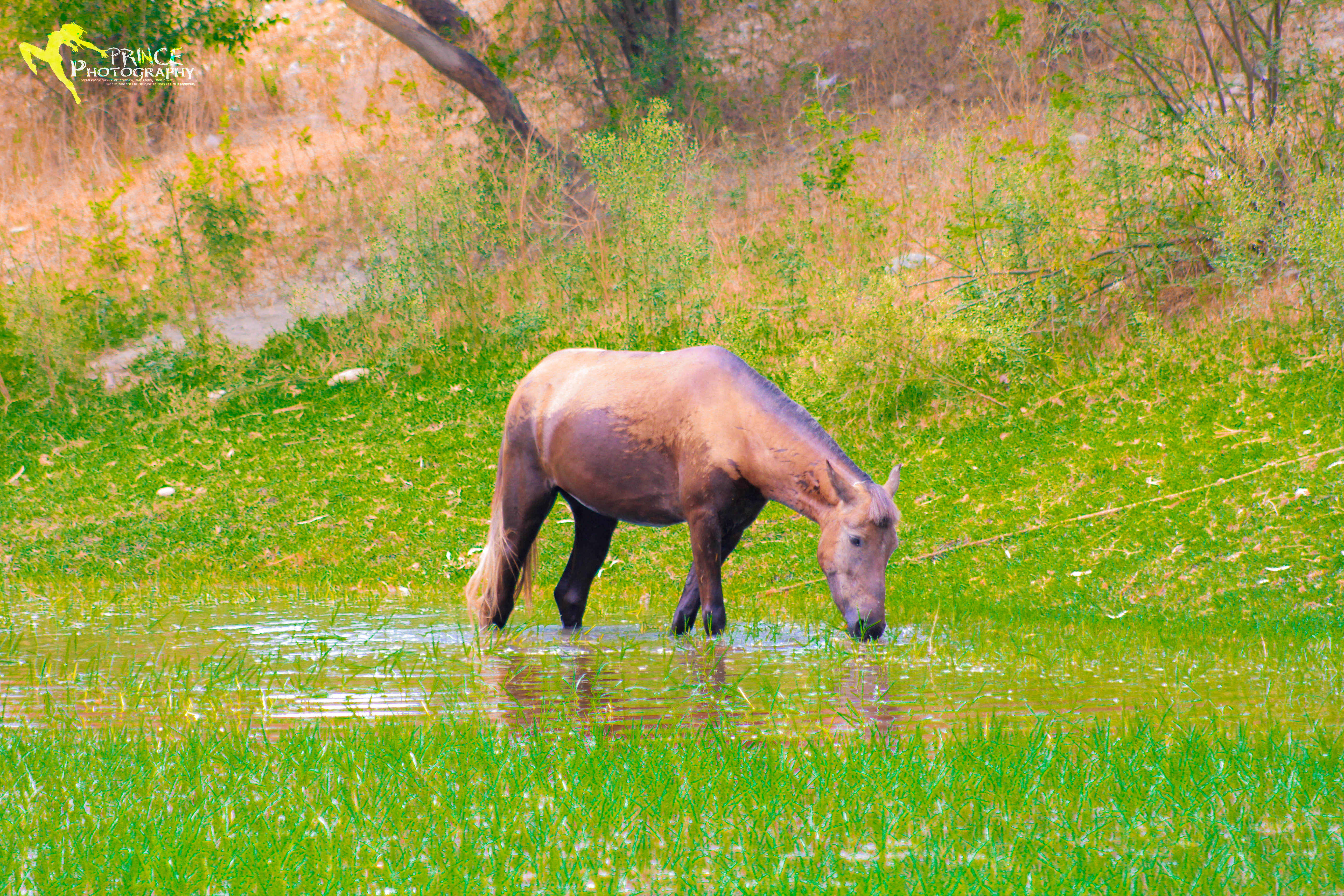 Jalbai